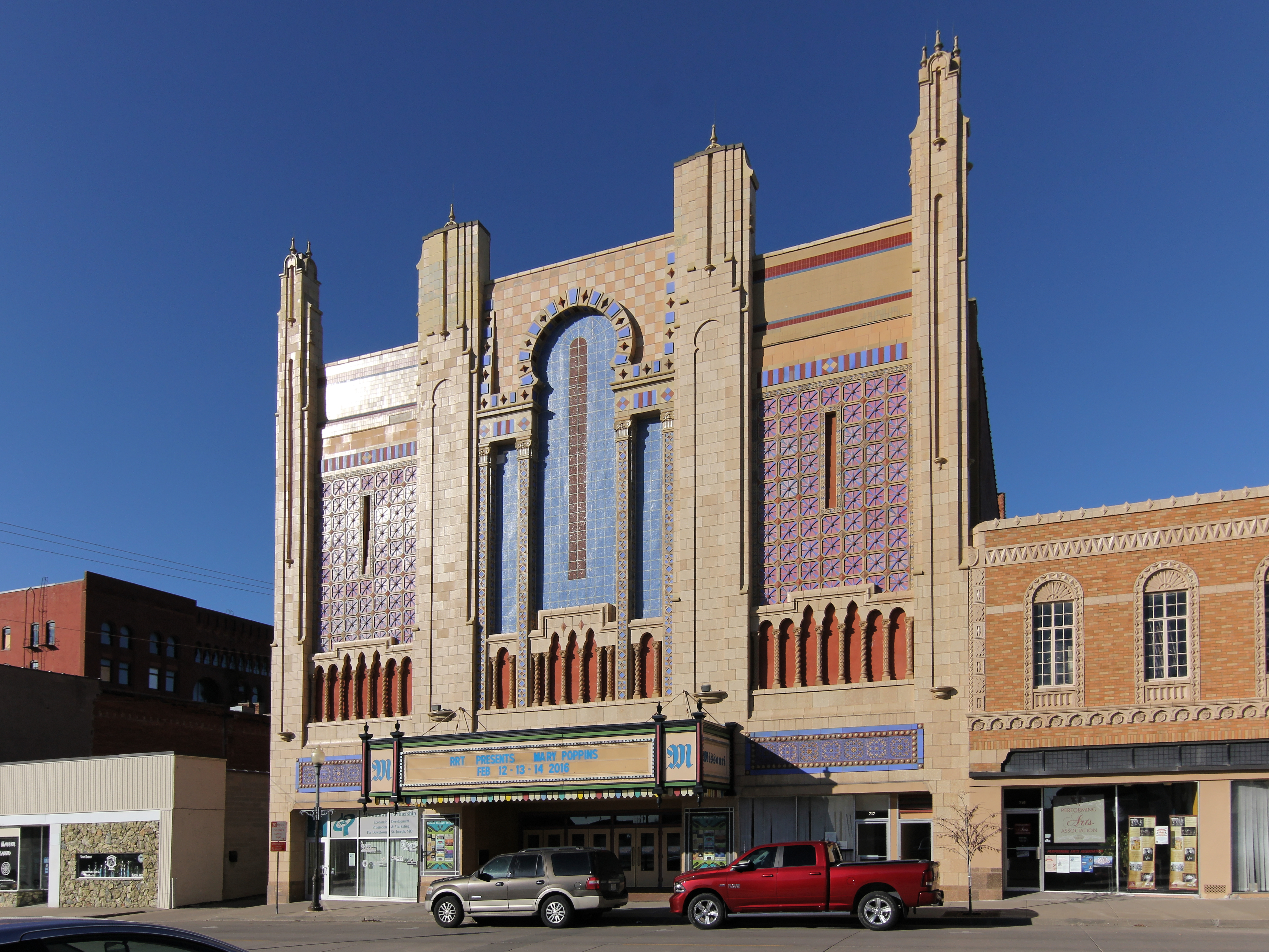 Missouri Theater Saint Joseph, MO